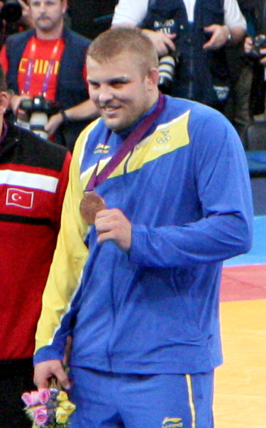 Medalists at the Men's 120 kg Greco Roman Wrestling, just after the medal ceremony. Johan Eurén of Sweden (bronze).